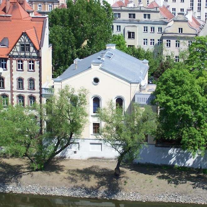 Old Synagogue in Opole